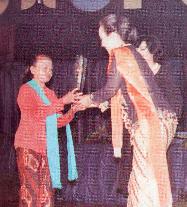 Suparmi receiving Citra for Best Supporting Actress for her performance in Serangan Fajar at the 1982 Indonesian Film Festival in Jakarta